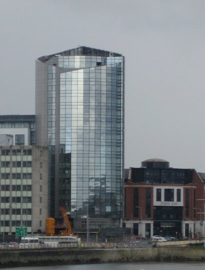 River Point, Limerick, Ireland by User:Seabhcan, 29 October 2005 originally from english wikipedia